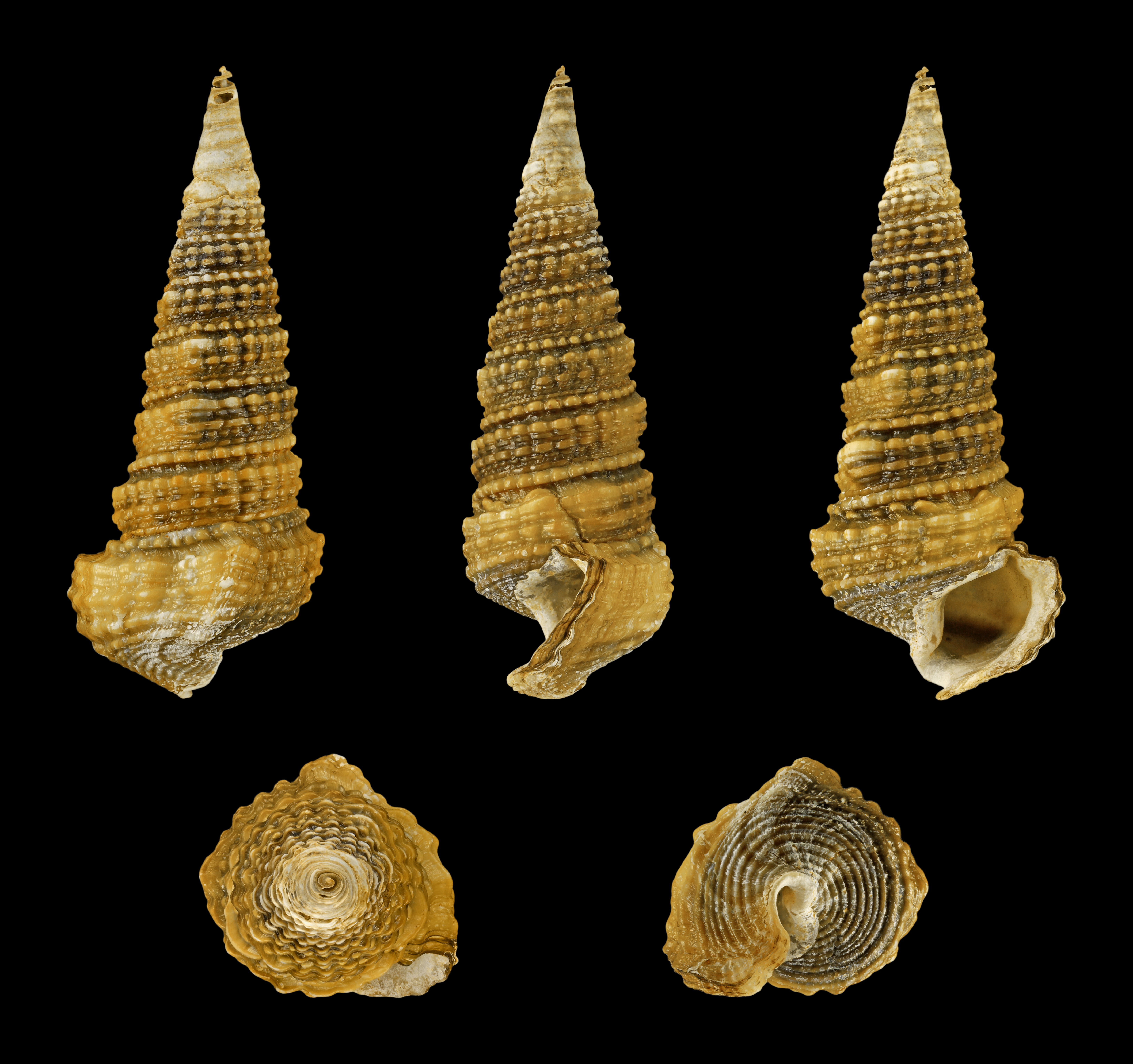 West African Mud Creeper; Length 5.1 cm; Originating from Gambia; Shell of own collection, therefore not geocoded. Dorsal, lateral (right side), ventral, back, and front view.